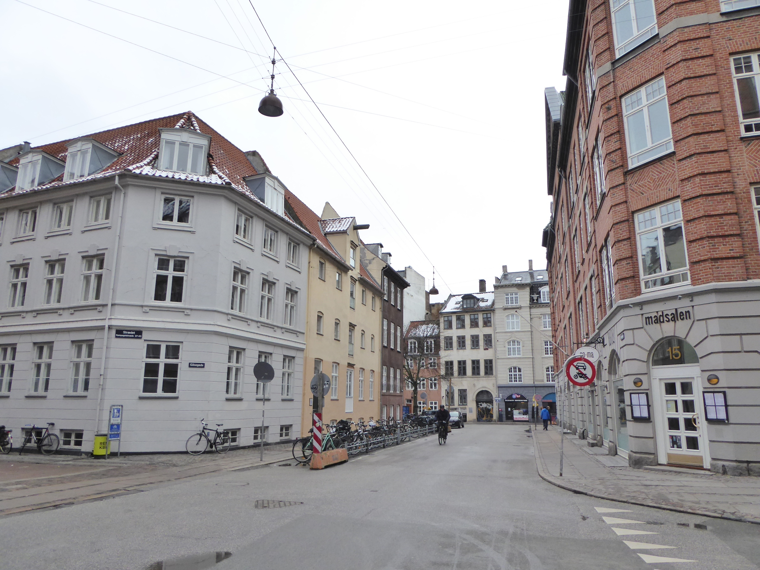 The street Gåsegade at Kompagnistræde in Indre By in Copenhagen.